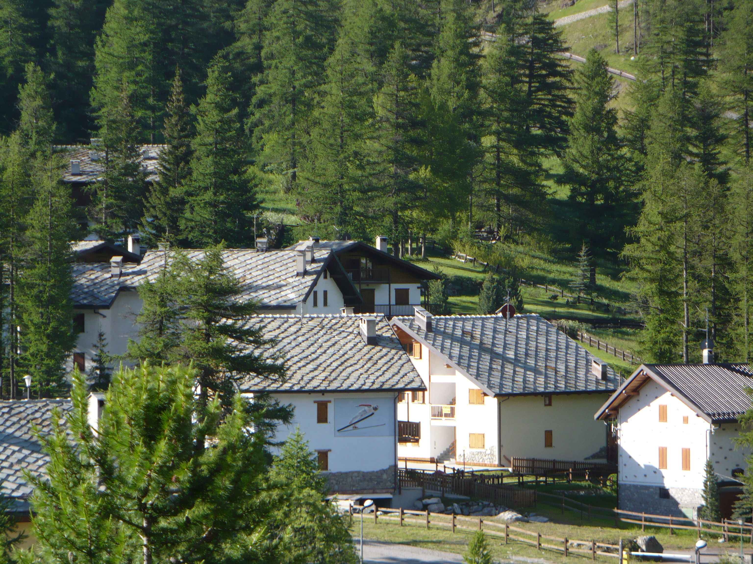 Chalets in Pragelato